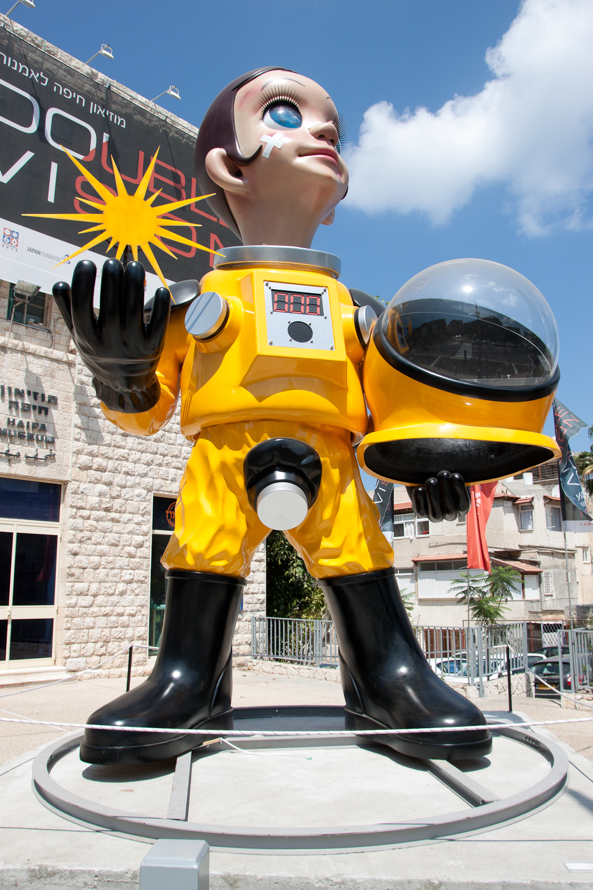 Kenji Yanobe's "Sun Child" outside the Haifa Museum of Art, part of the "Double Vision" exhibition of contemporary Japanese art.